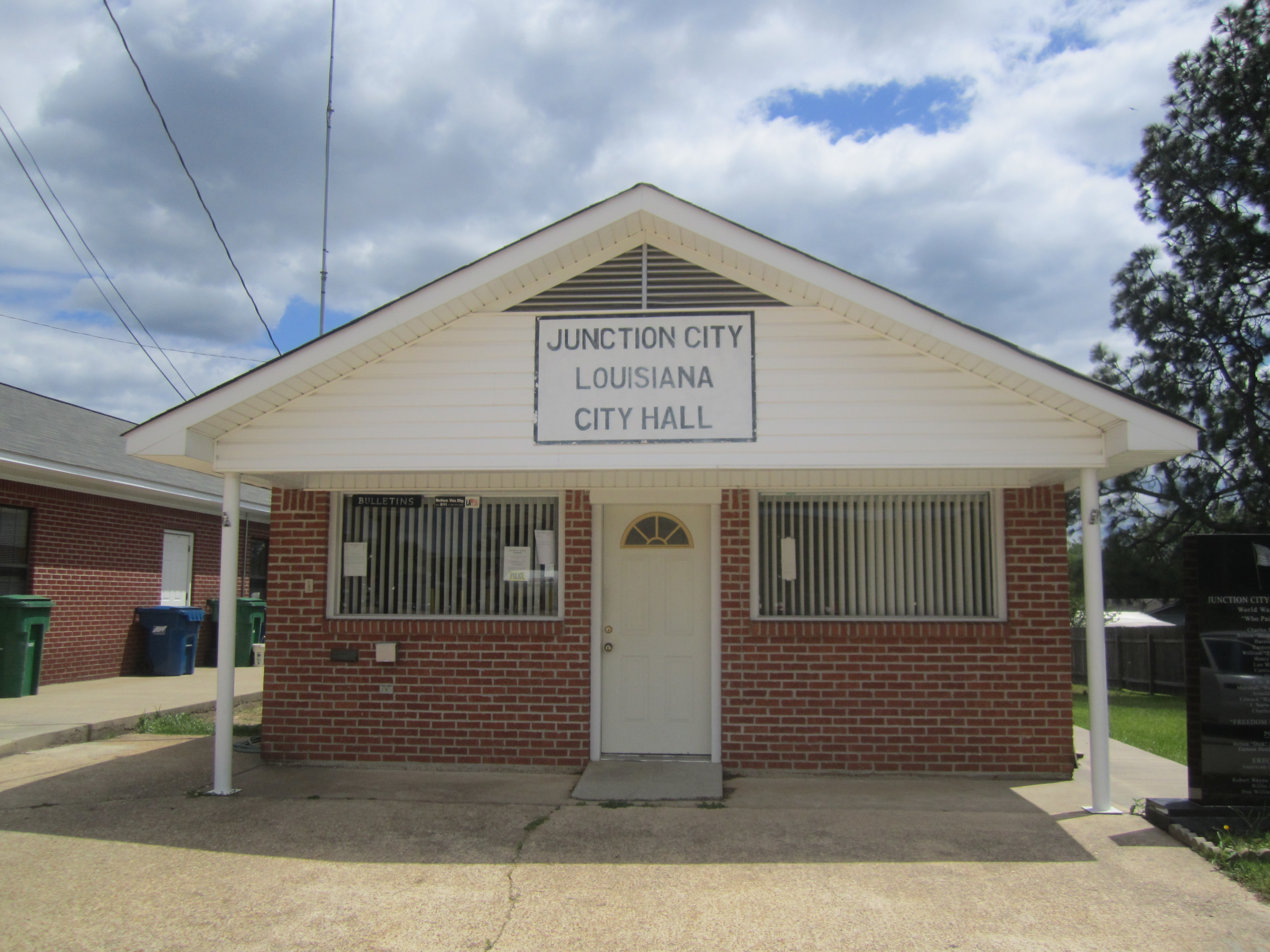 I took photo with Canon camera of Junction City, LA, town hall.